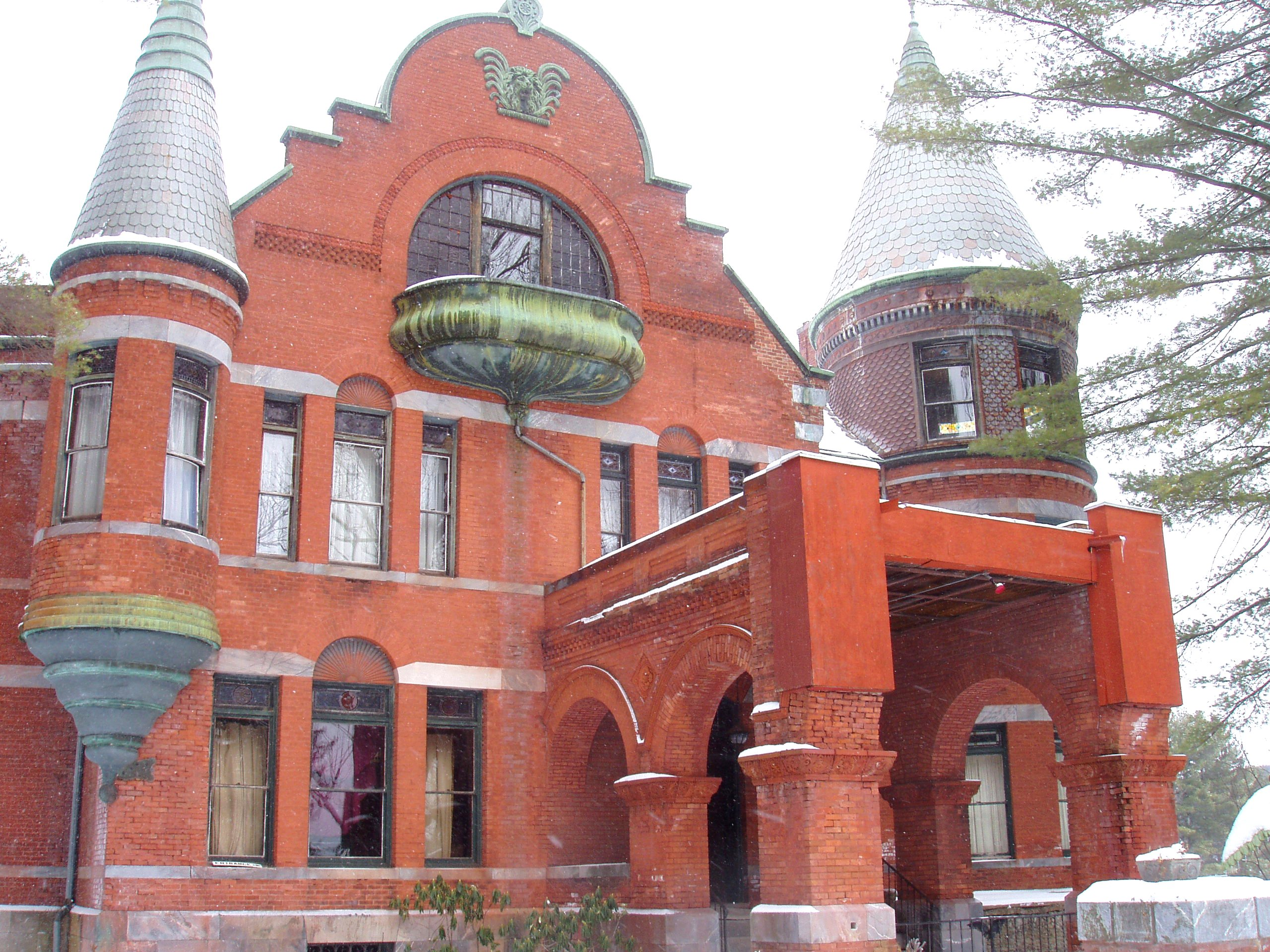 Wilson Castle, Proctor, Vermont. Entrance facade.